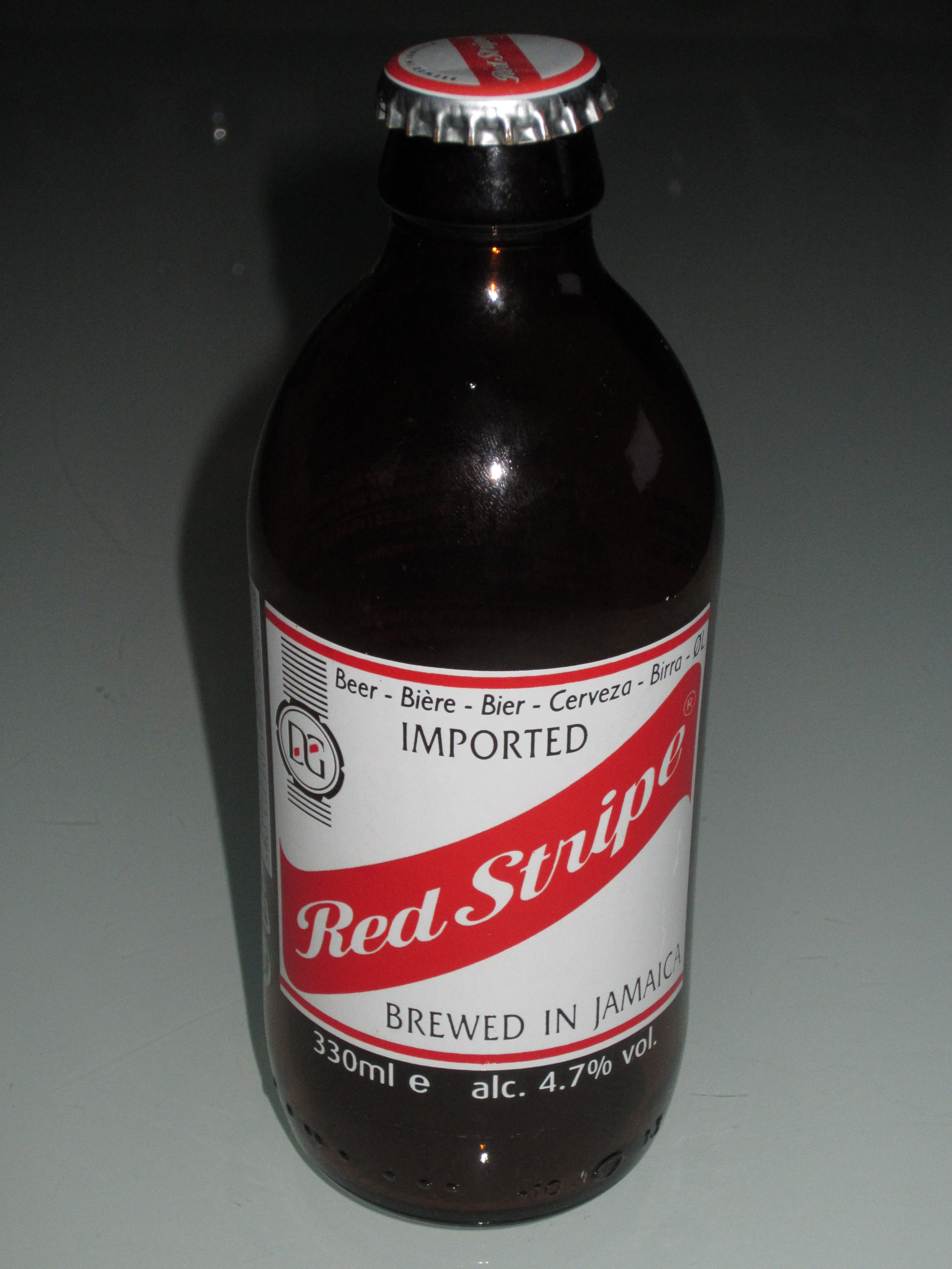 Red Stripe